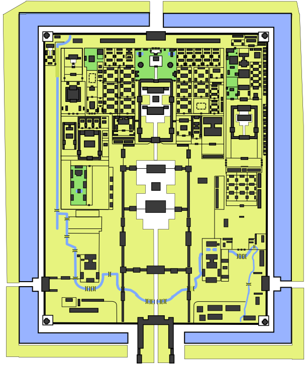 Plan of the Forbidden City. Self created via Inkscape. Labelled version for use in Forbidden City is at Image:Forbidden city map wp 1.png. Other labelled versions forthcoming. Sources consulted include: Yu, Zhuoyun (1984) Palaces of the Forbidden City, New York: Viking ISBN 0-670-53721-7 Oddyseey Publication's map of the Forbidden City (see here) Satellite images via Google Earth.